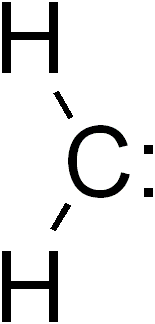 chemical structure of carbene :CH2